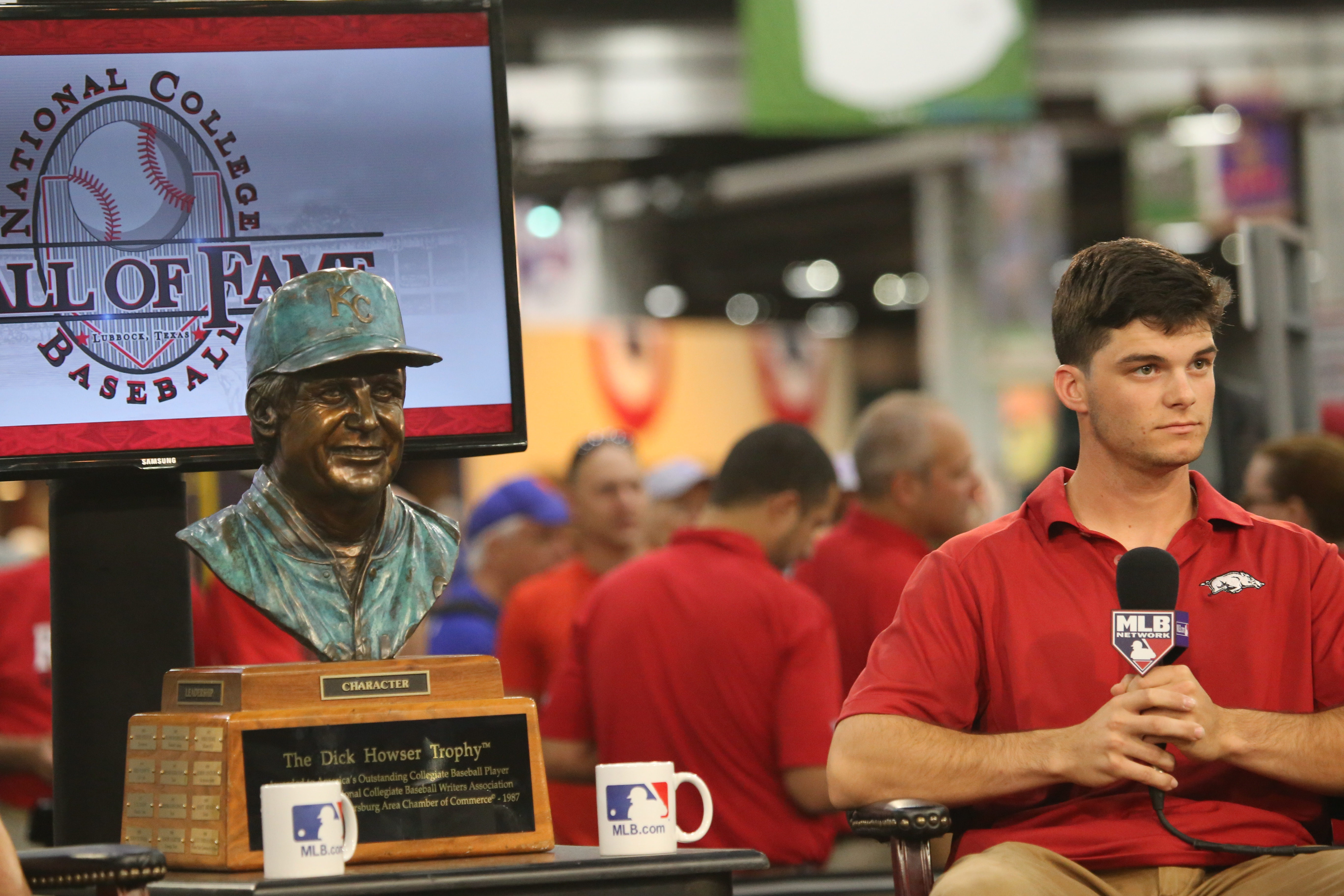 Arkansas outfielder/Red Sox prospect Andrew Benintendi named the winner of the 2015 Dick Howser Trophy.